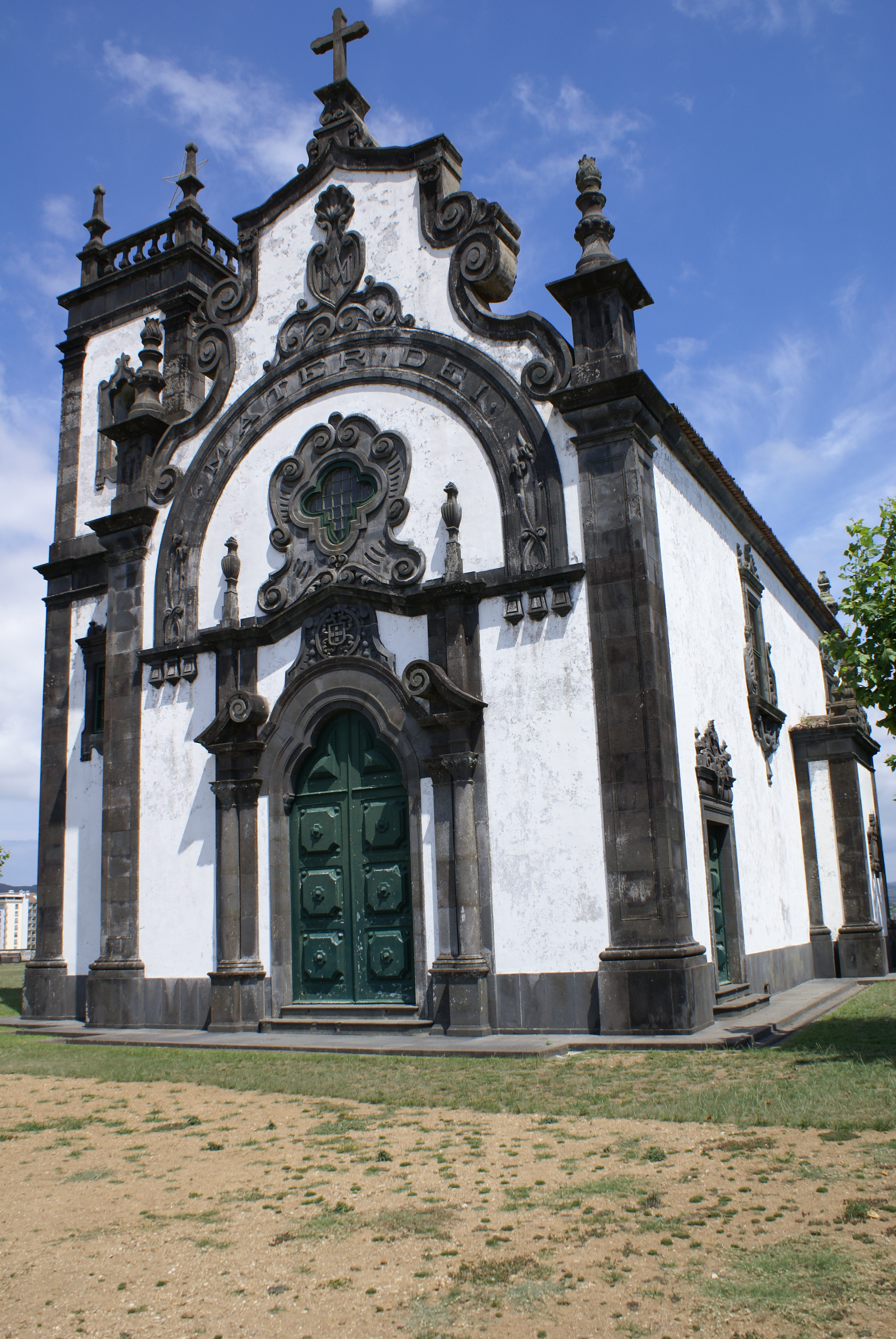 Church of Mãe de Deus, São Pedro, Ponta Delgada, São Miguel (Azores), Portugal